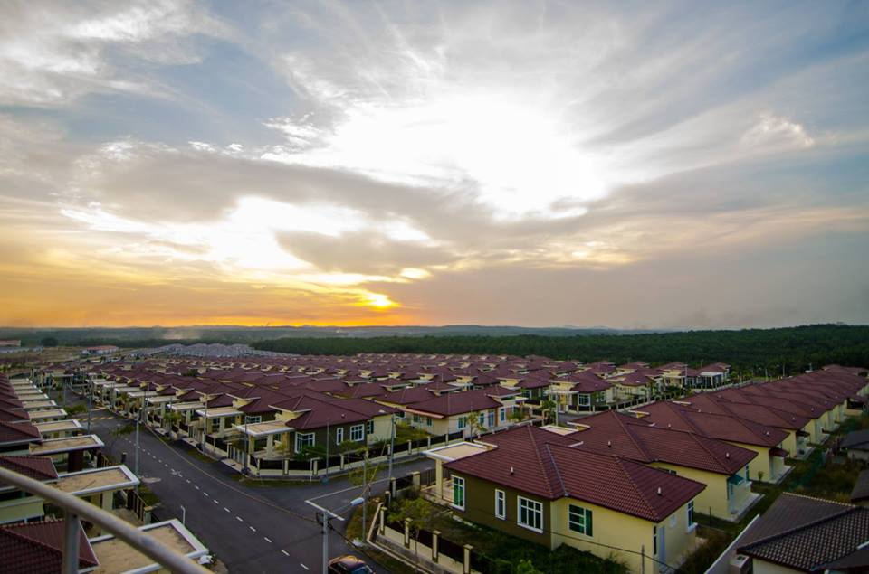 Taman Belimbing Setia Phase 1 (Single Storey)